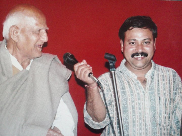 Shri Dharampal Agrawal Jee with his Best Student Shri Rajiv Dixit Jee during a lecture of Rajiv Bhai.